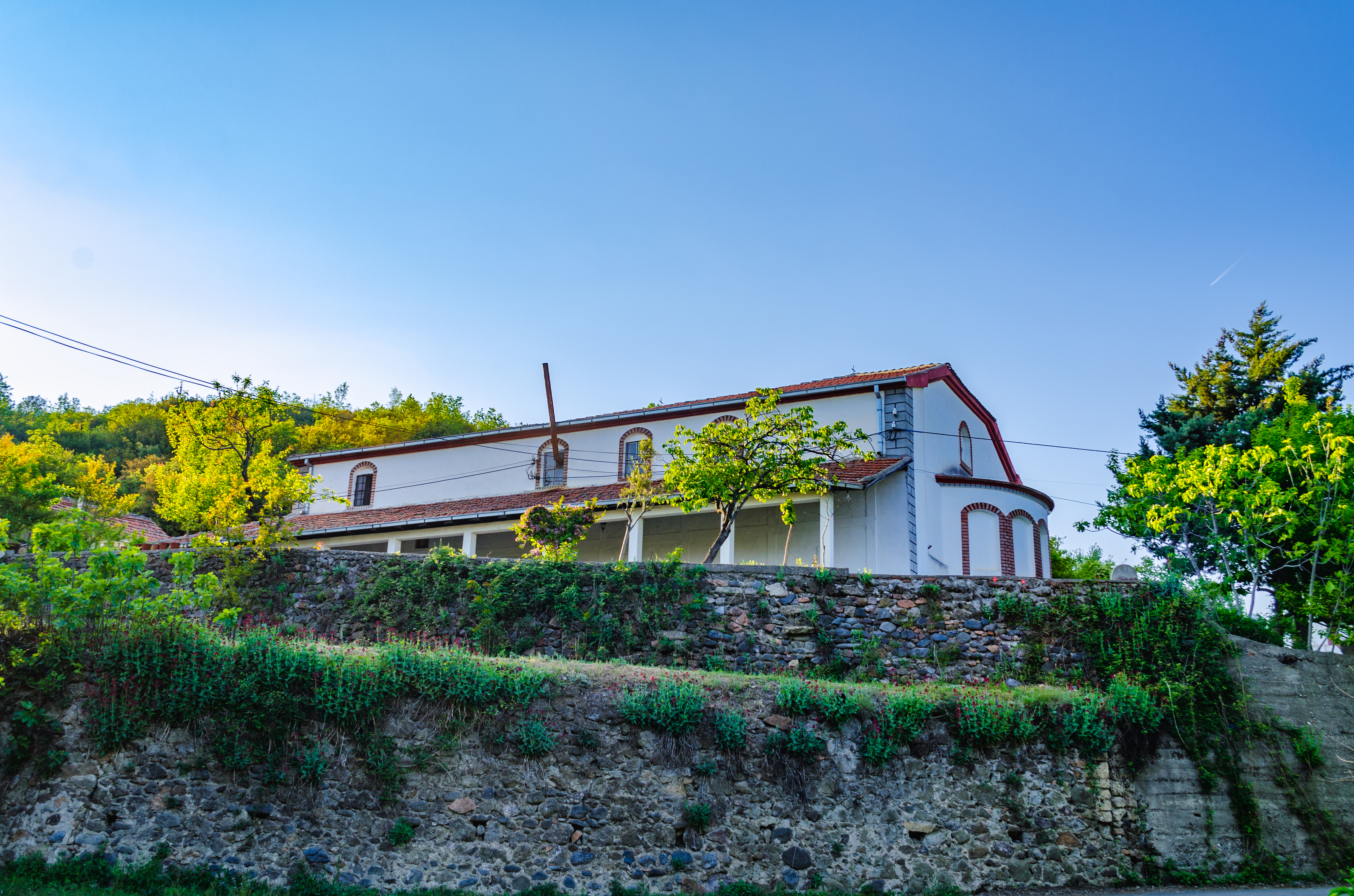 Sts. Constantine and Helena Church in the village of Miravci, Macedonia